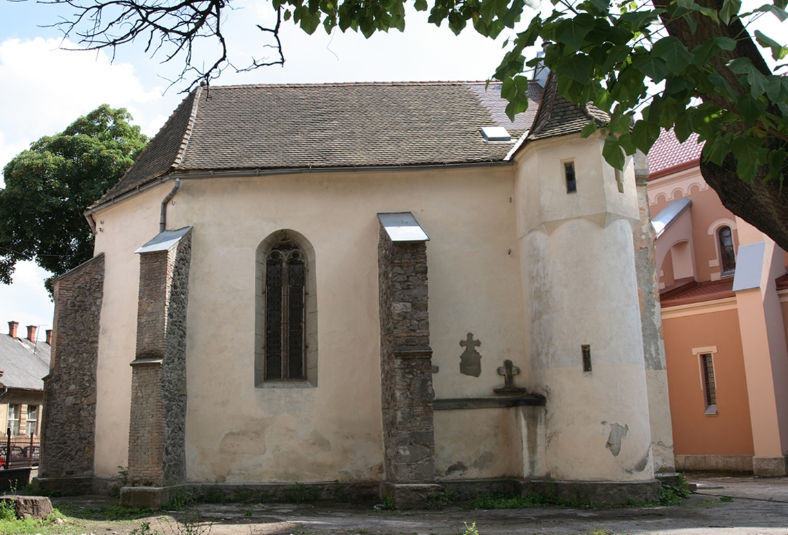 Chapel in Mukachevo, Ukraine